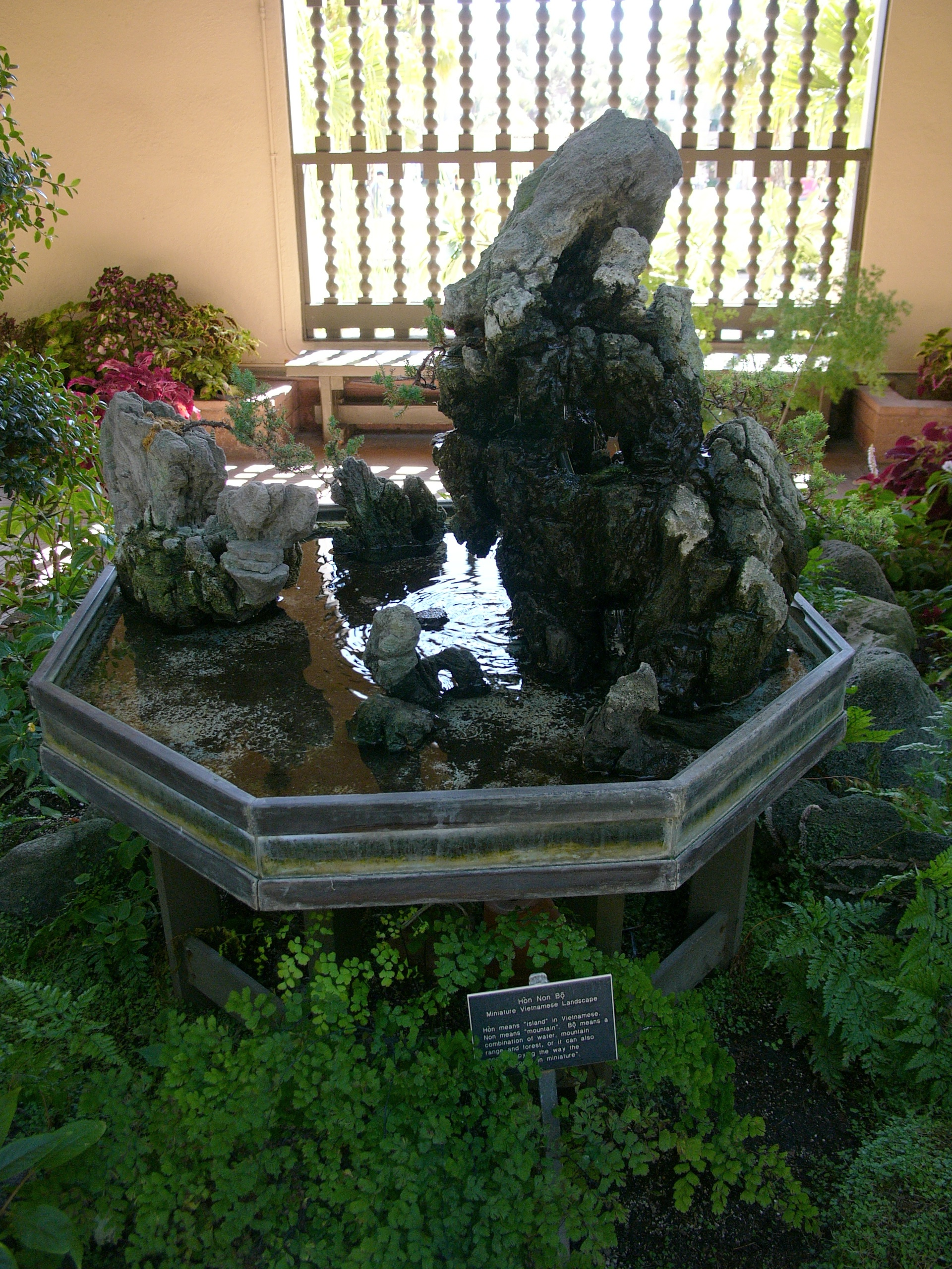 Hon Non Bo in Balboa Park's botanical garden.